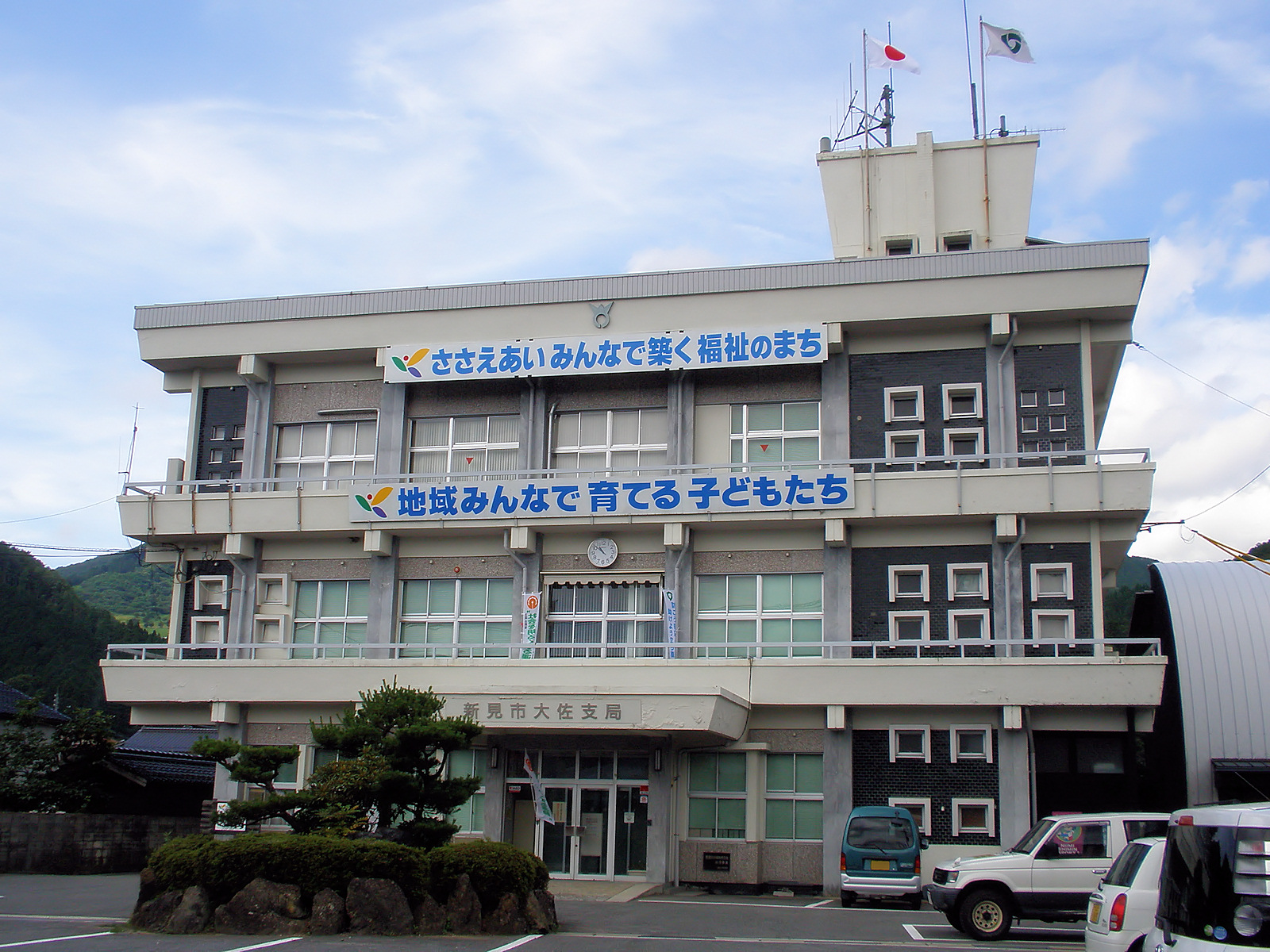 Former Niimi city office Ōsa branch (2005.3.31-2014.3.23) Former Ōsa town office (1967.4-2005.3.30)